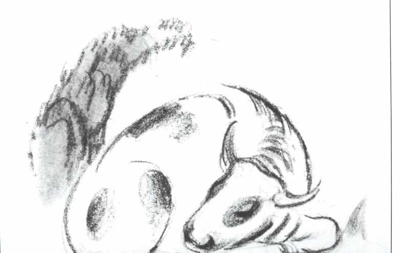 Lying bull